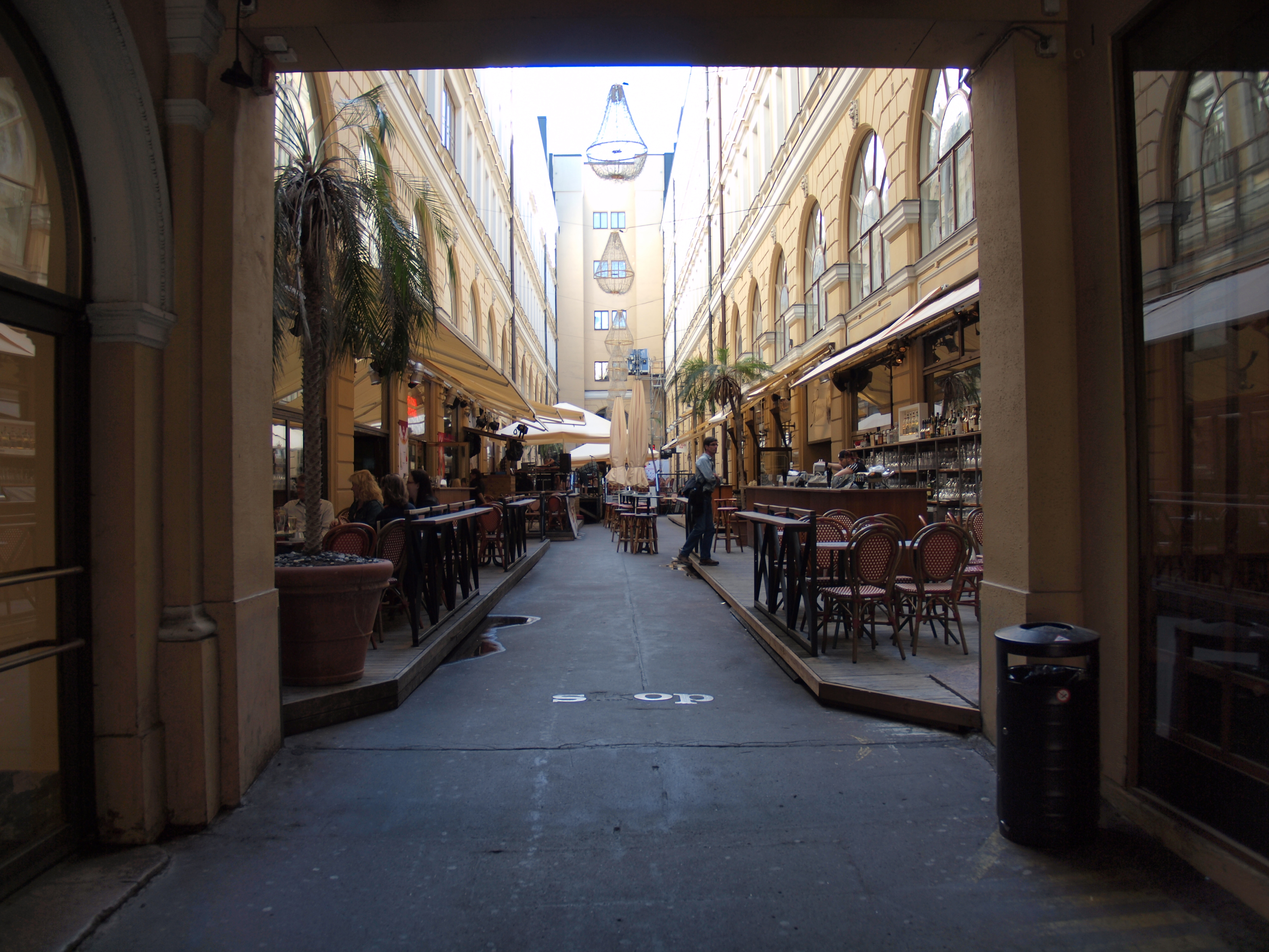 The so-called "Mummotunneli" ("Grandma-tunnel") in the centre of Helsinki, Finland. It gets its name from the alleged high average age of its clients.